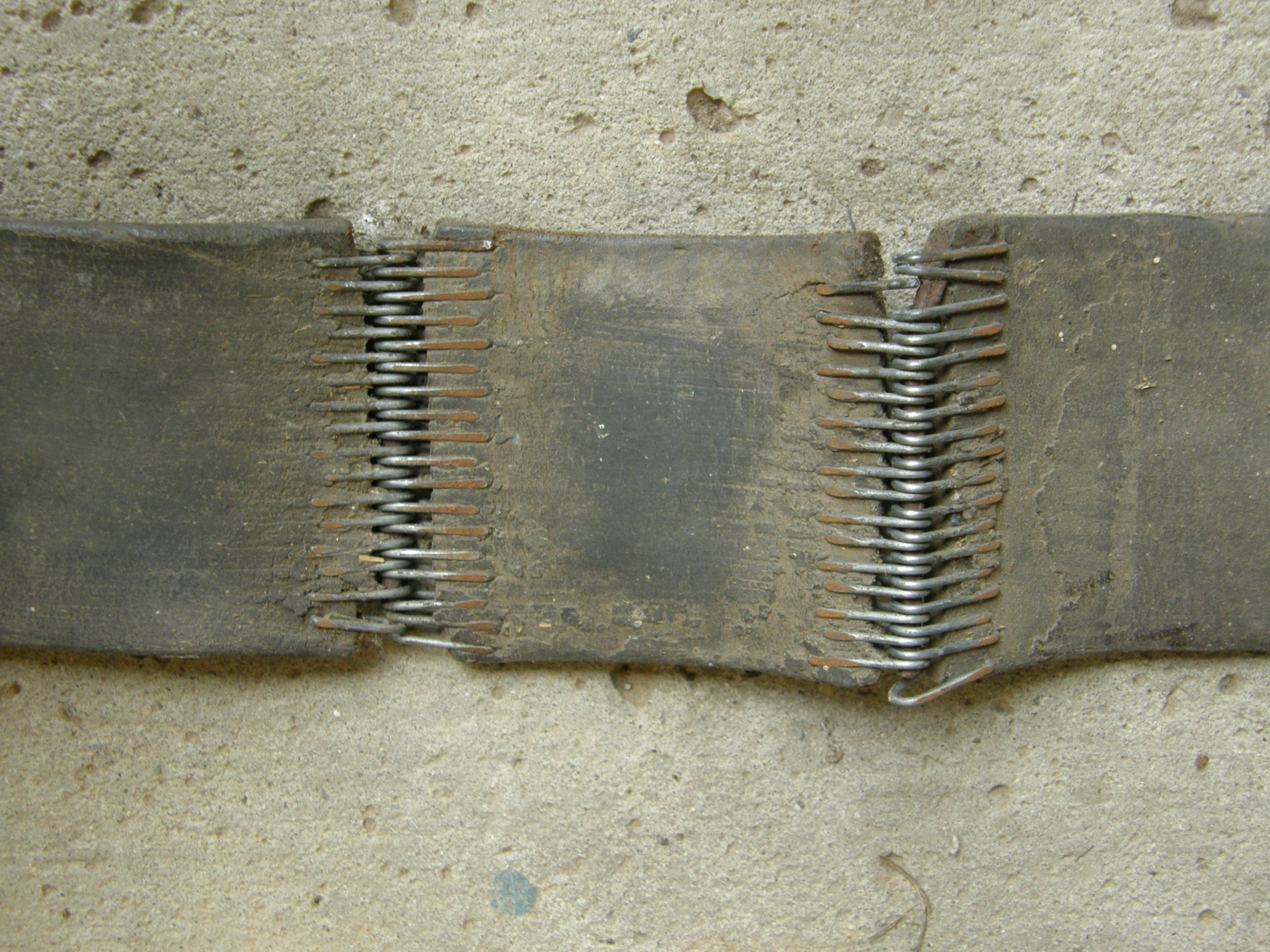 Leather Belt